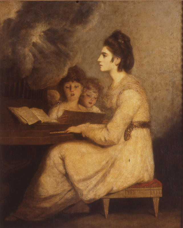 Elizabeth Linley, Mrs Richard Brinsley Sheridan (1754-1792) as Saint Cecilia. The famous singer is shown as the patron saint of music